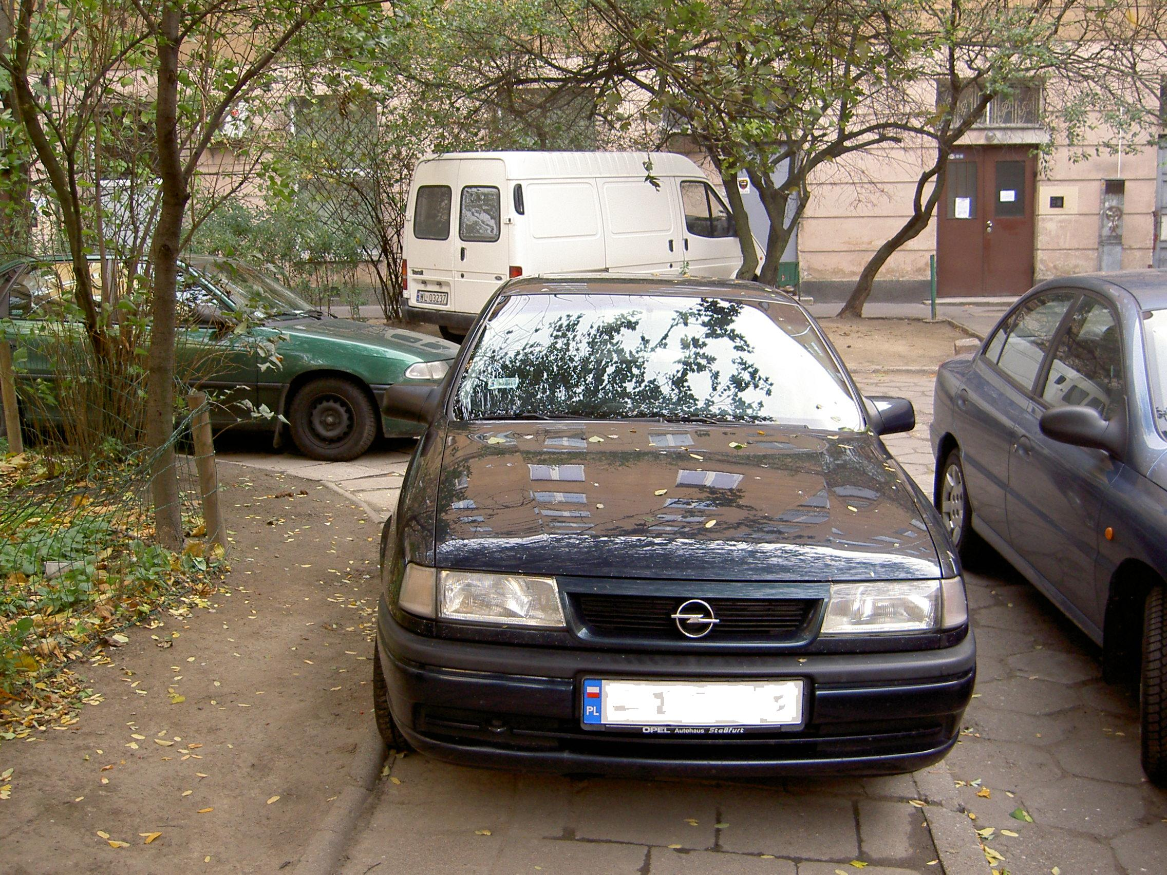 Opel Vectra seen in Warsaw Picture taken by me in november 2006